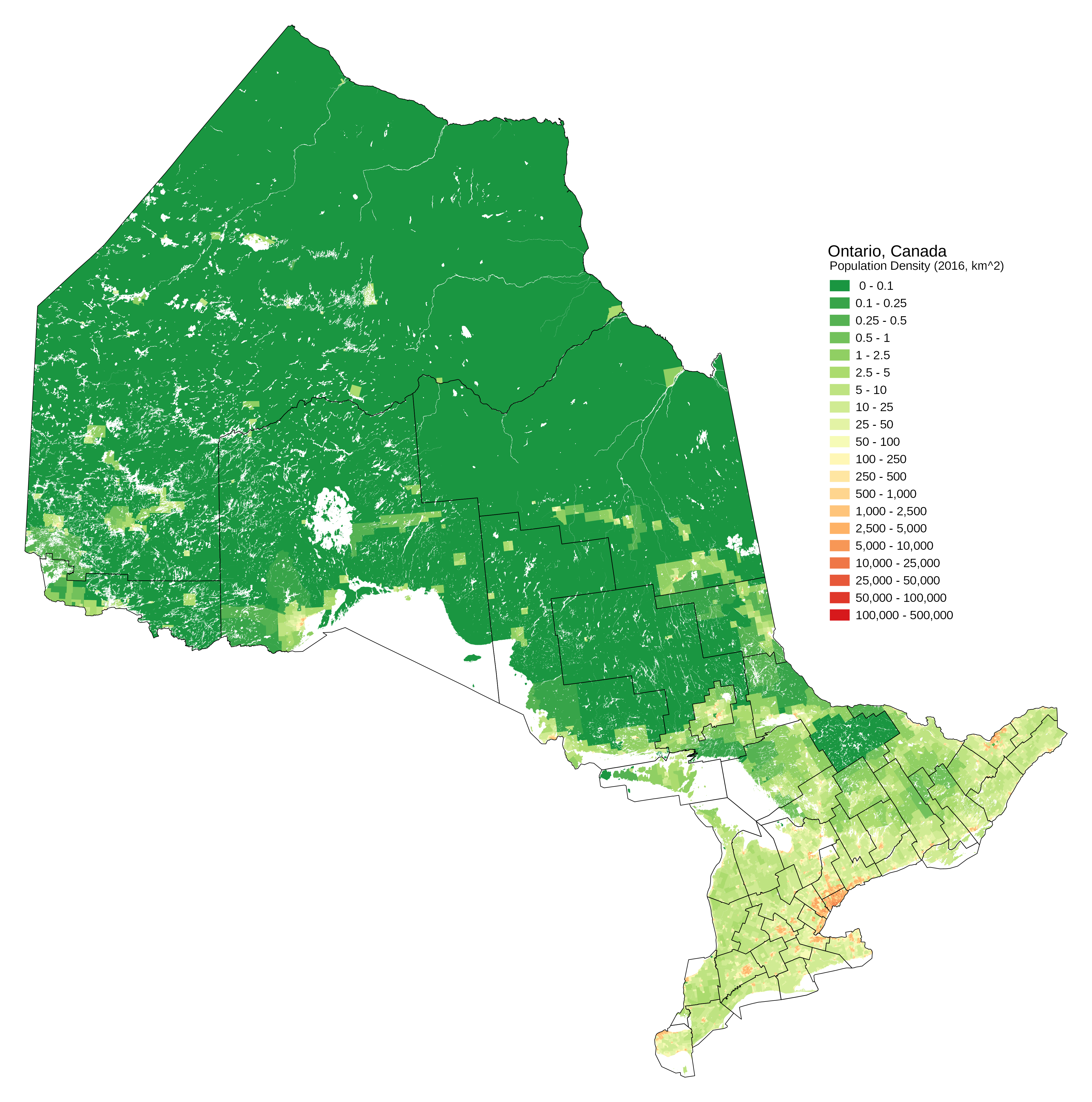 A map of the population density of Ontario, Canada, broken down by census dissemination area